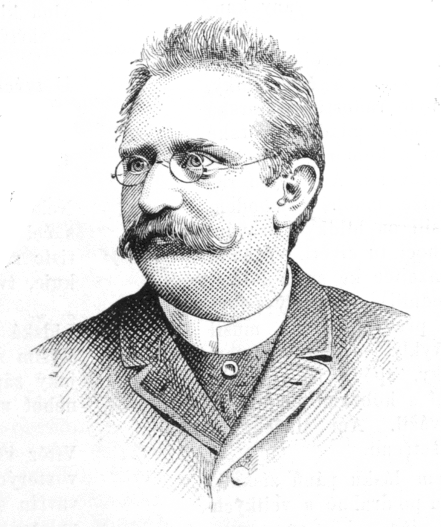 Portrait of Josef Fořt (1850-1929), Czech politician, minister in an Austrian cabinet, member of a committee of Jubilee Exhibition in Prague 1891. Painting based on a photograph by either Jindřich Eckert, Josef Fiedler (under the name of his deceased father Hynek Fiedler), Jan Nepomuk František Langhans, Jan Mulač or Jan Tomáš; it is not clear which of these took this particular picture, but all died before 31.12.1937.